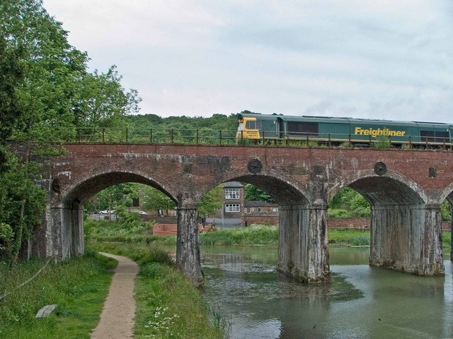 Locomotive on Viaduct This diesel locomotive pulls a long line of empty coal trucks up from the Ironbridge Gorge power station over the viaduct crossing Upper Furnace Pool in Coalbrookdale